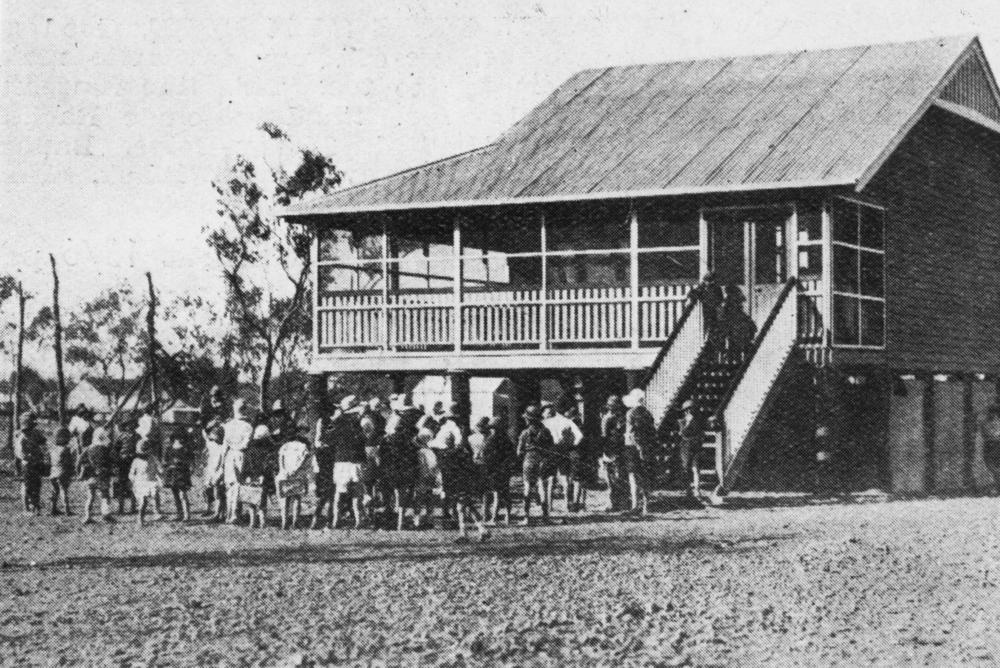 In the schoolyard of the Mount Isa State School, 1929 School children assembling in the yard of the Mount Isa School. The school house is elevated with a wide verandah on two sides of the classrooms.